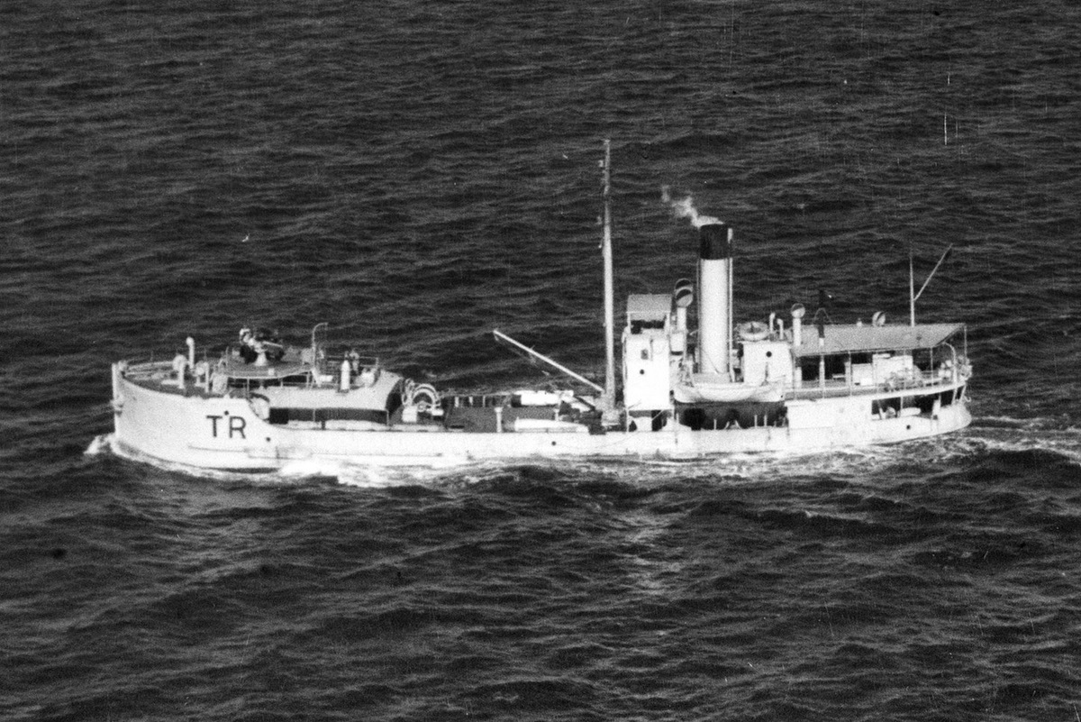 AERIAL PORT SIDE VIEW OF THE AUXILIARY MINESWEEPER HMAS TERKA AFTER CONVERSION FOR NAVAL SERVICE. A 12 POUNDER GUN HAS BEEN MOUNTED FORWARD AND HER FOREMAST REMOVED. HER IDENTIFICATION LETTERS (TR) ARE PAINTED ON HER BOWS.